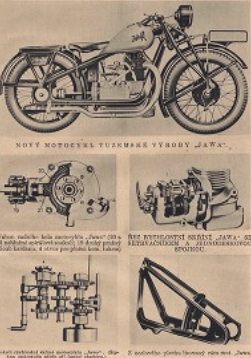 First motorcycle Jawa (Czechoslovakia, 1929)